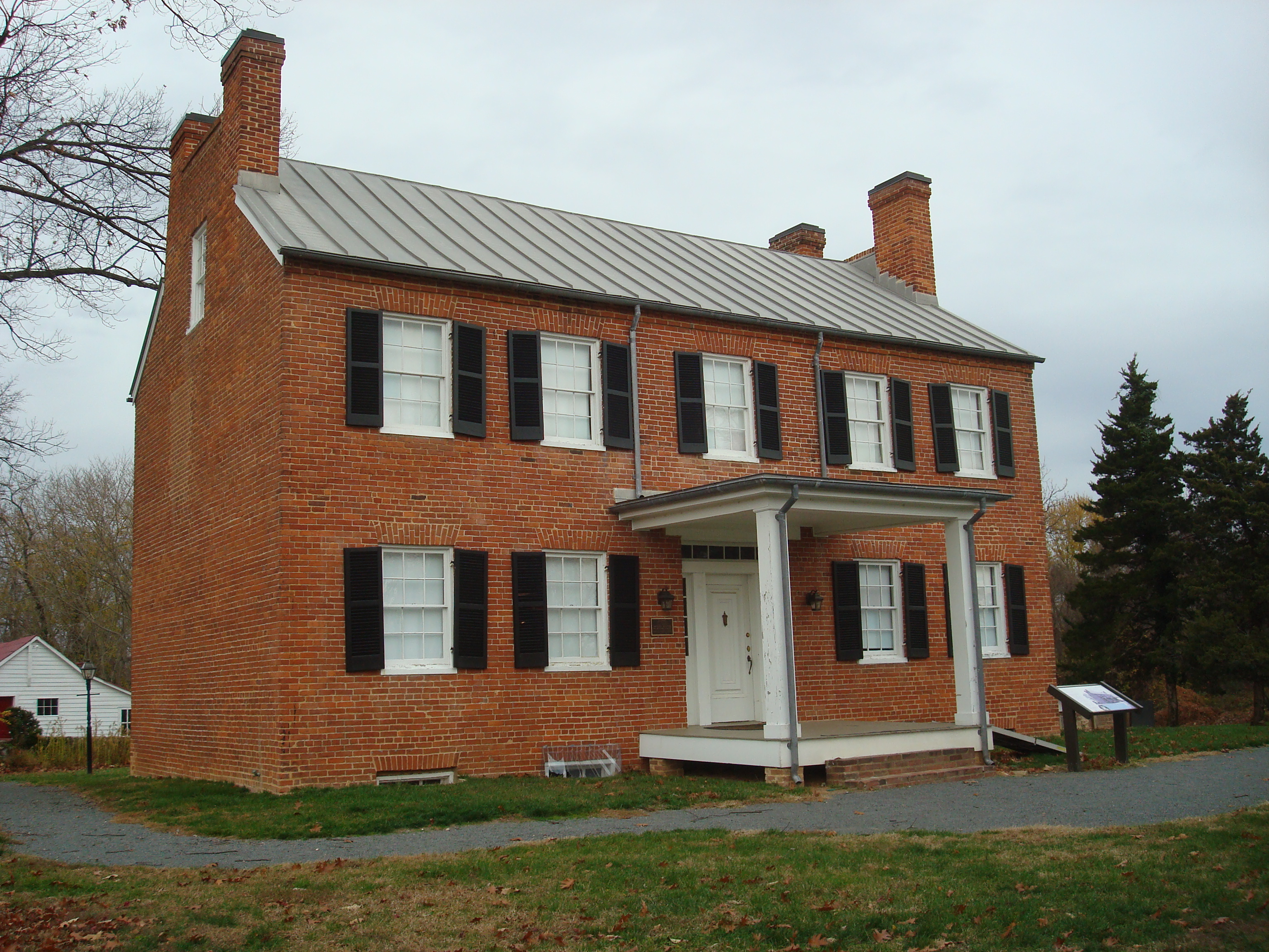 Outside view of Historic Blenheim house in Virginia.